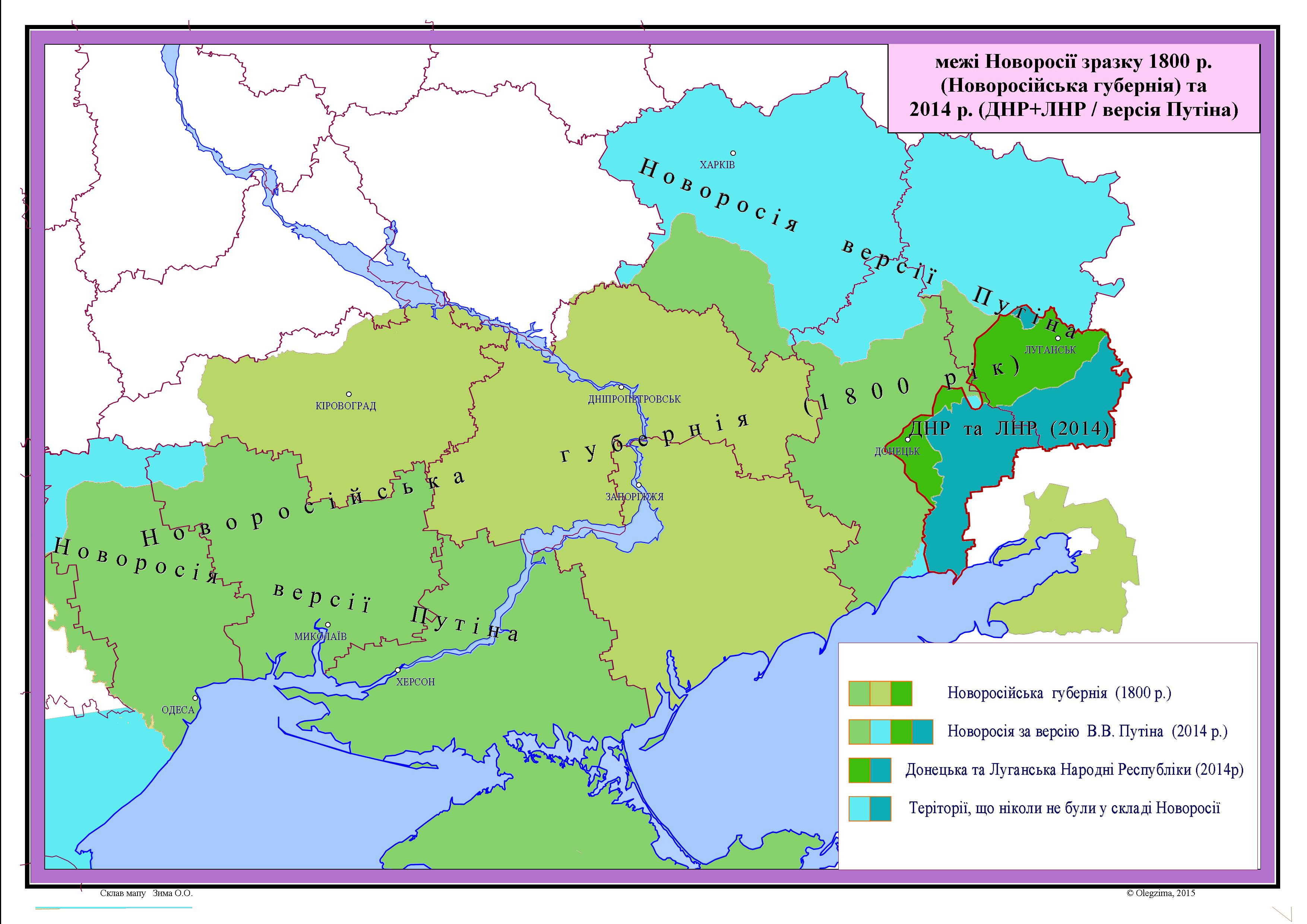 borders the Novorossiya 1800 (Novorossiysk Governorate) and 2014 (DNR + LNR / Putin version)